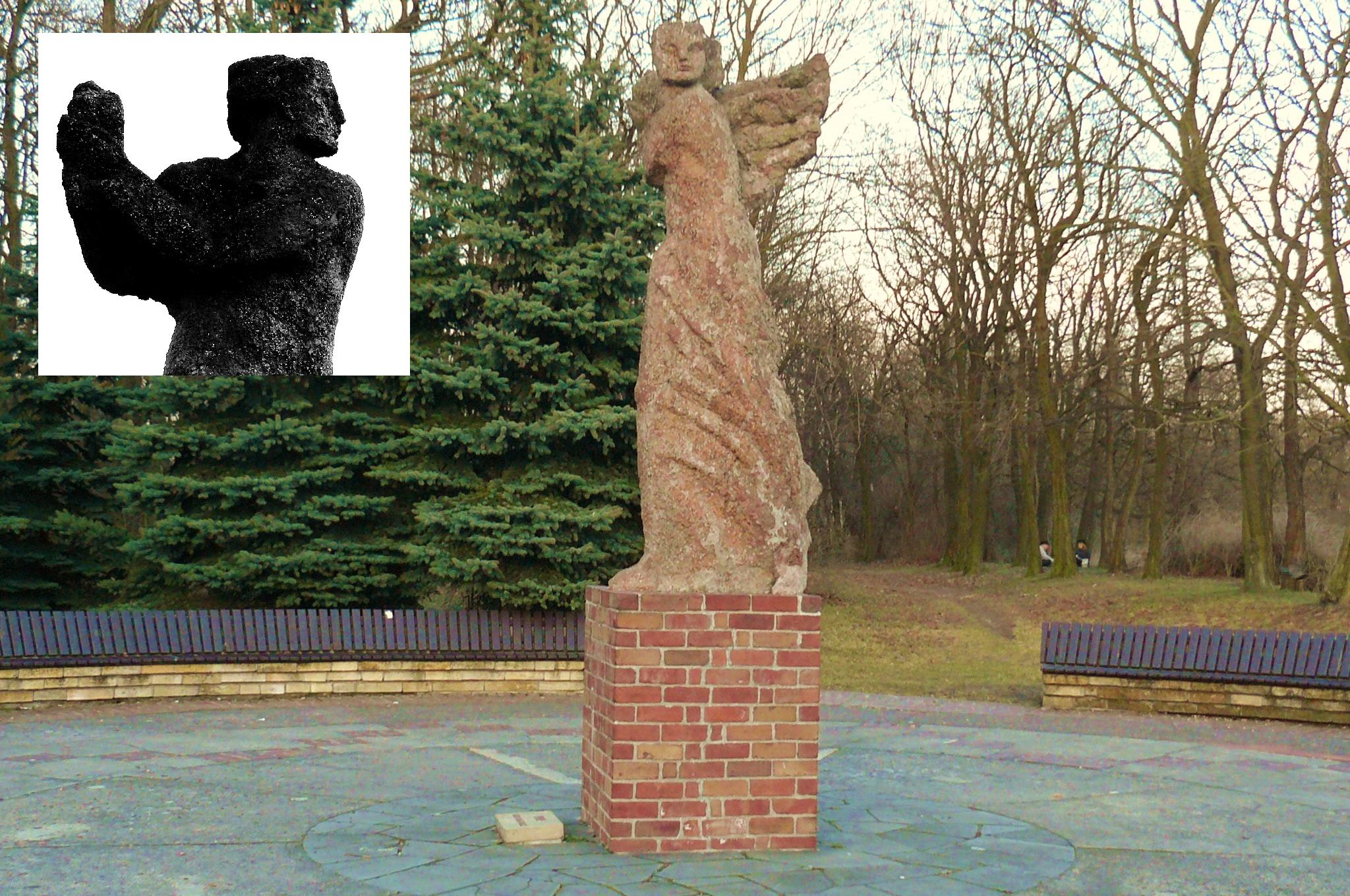 Sculpture Nike. Sculptor: Bazyli Wojtowicz, 1971, artificial stone. Park Cytadela in Poznań, Poland.